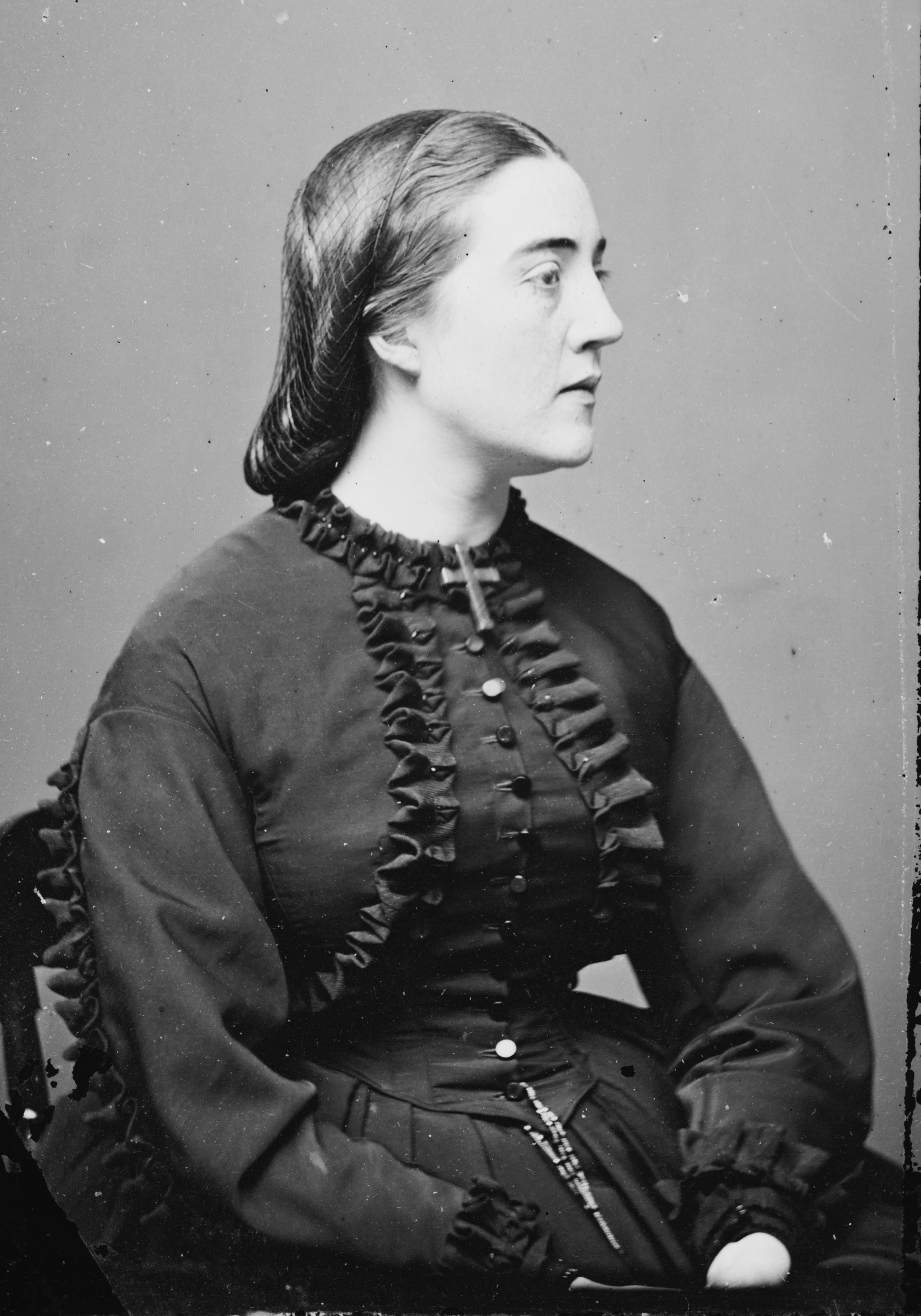 Adele Cutts, wife of Stephen A. Douglas. Library of Congress description: "Mrs. Stephen A. Douglas".